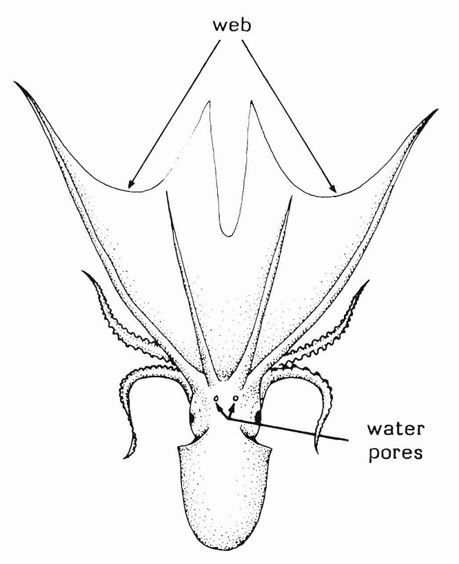 Pelagic octopus Tremoctopus